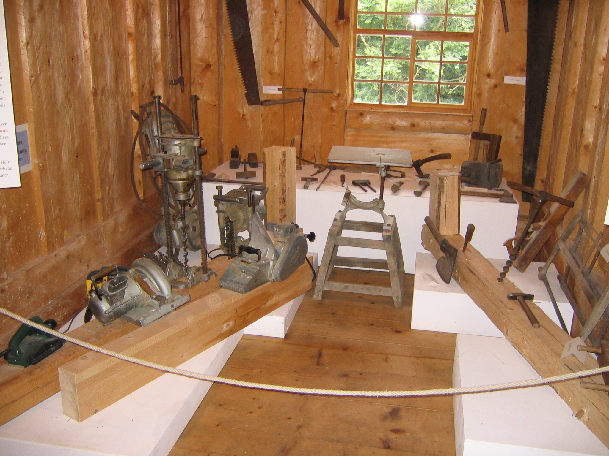 Tools and machines of a Carpenter at the Freilichtmuseum Neuhausen ob Eck